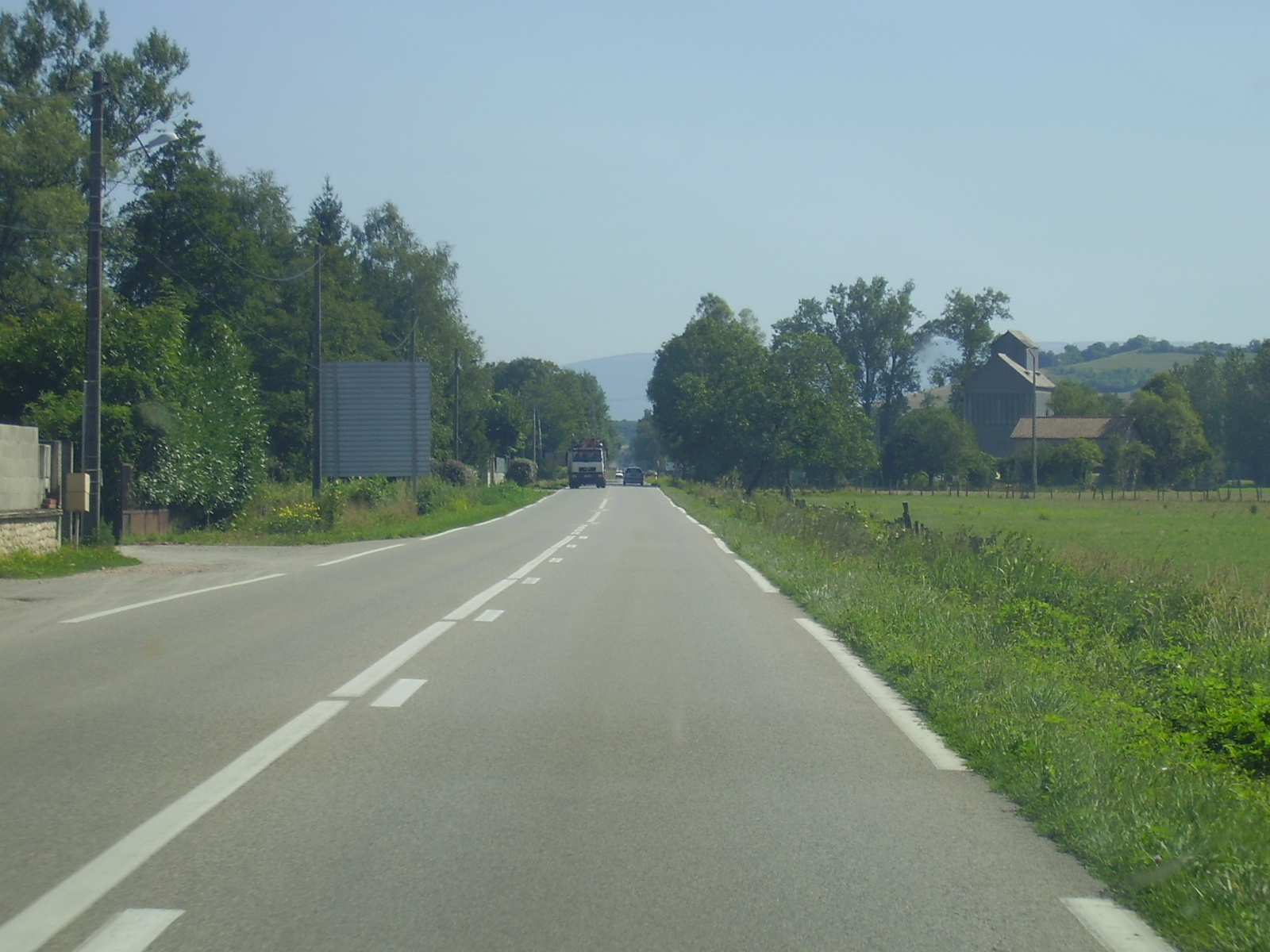 D522 in Isère, Rhône-Alpes, France (D 1006 - D 522 - D 1075)